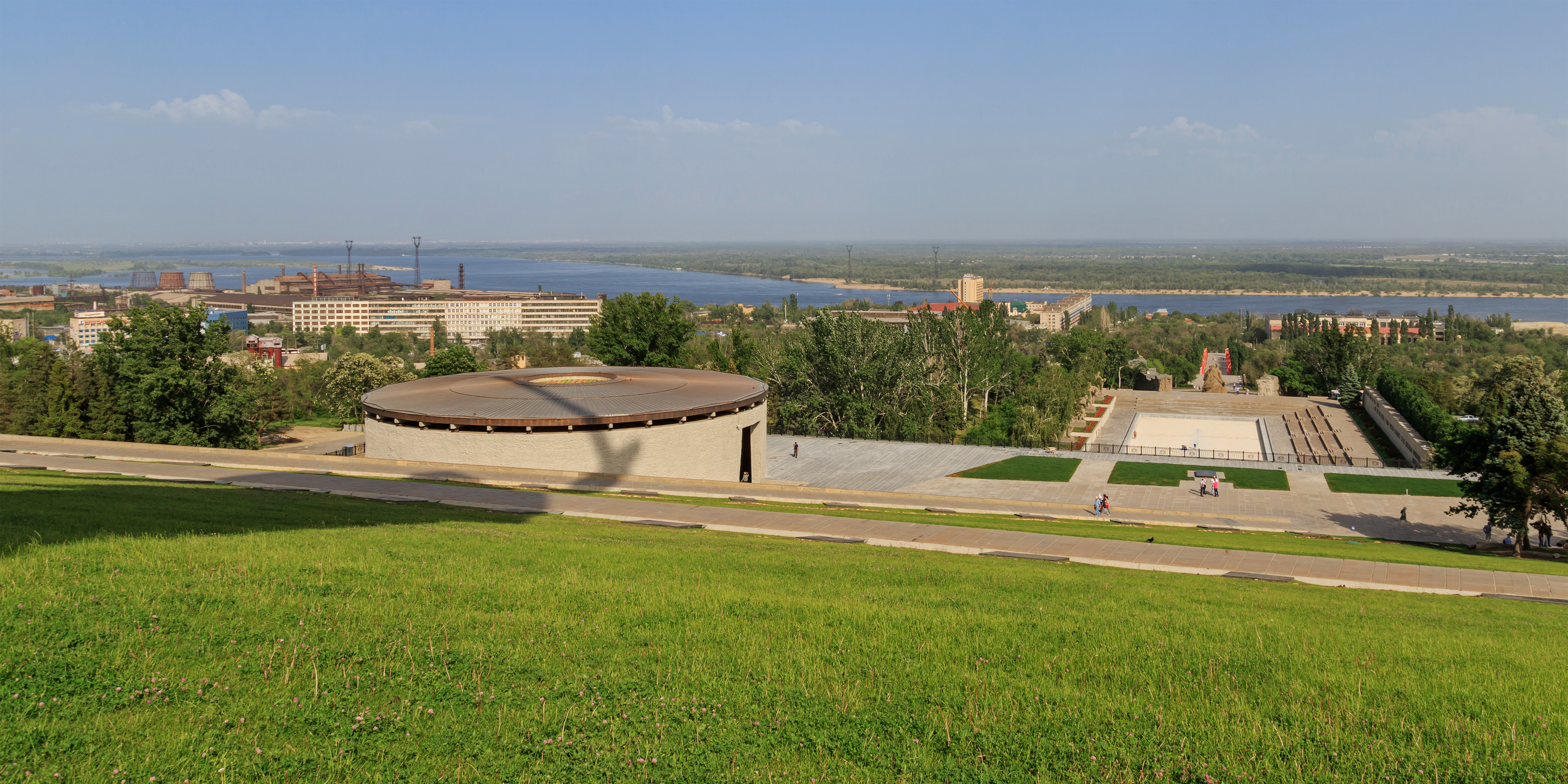 View from Mamaev Hill in Volgograd, Russia